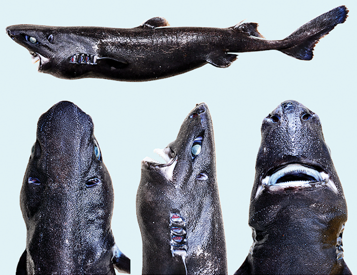 Ninja lanternshark Etmopterus benchleyi, image published in - Vásquez, V.E., Ebert, D.A. & Long, D.J. (2015). "Etmopterus benchleyi n. sp., a new lanternshark (Squaliformes: Etmopteridae) from the central eastern Pacific Ocean" (PDF). Journal of the Ocean Science Foundation, 17: 43–55. Retrieved 25 December 2015.